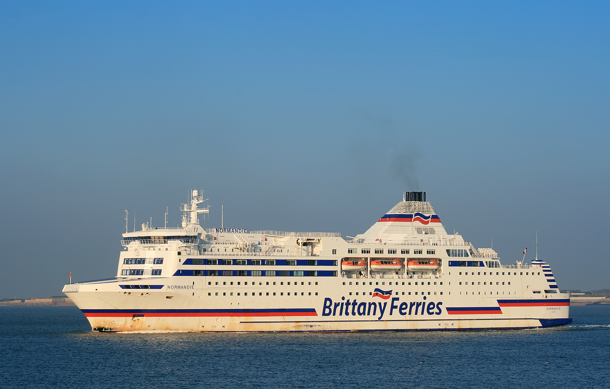 MV Normandie, operated by Brittany Ferries, an English Channel RoRo vehicle and passenger ferry outward bound to France from Portsmouth Harbour. Image uploaded by me User:George.Hutchinson from a photograph taken by and supplied by Brian Burnell. Wikipedia editors are reminded that the copyright remains with the photographer, and that the terms of the Creative Commons licence; that allow editors to reuse this image apply to Wikipedia editors also, as they do to other re-users of this image. Breaches of the licence terms are not only unlawful, but are also antisocial, in that breaches discourage photographers from making their images freely available to everyone without payment. Wikipedia re-users are also reminded of the license terms that derivatives of this image should not imply that the adaptation is endorsed or approved by the author or copyright holder. Neither should derivatives be presented as the creation of the author or copyright holder, while clearly stating that the adaptation is a derivative of the original. Attribution online should be in this format Brian Burnell. On the printed page, a simpler form is acceptable - example: "Image: Brian Burnell". Non-Wikipedia users are requested to advise Brian Burnell of its use other than on Wikipedia.